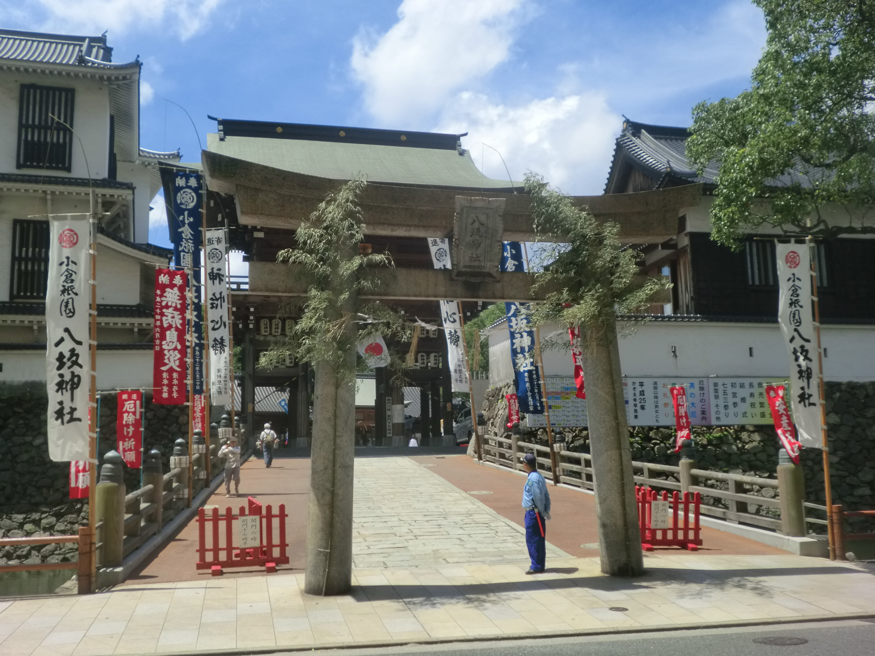 Gate and torii of Yasaka shrine at the day of Kokura Gion Daiko festival.Photographed at Kitakyushu,Fukuoka,Japan.